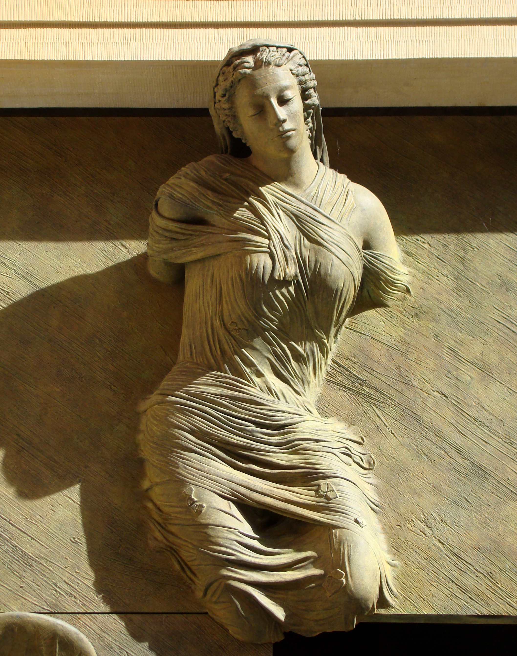 Igor Mitoraj's church door, Warsaw, detail